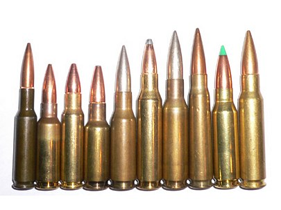 From left to right: 6mm SAW, 6.5 Grendel, 6.8 SPC, 7mm Bench Rest, .280/30 British, 7mm-08, 7mm Second Optimum (Liviano), .276 Pedersen, .308x1.75", 7.62x51 NATO. Photograph comparing various calibers to the British .280 Cartridge. Photo taken by user JamesL85.